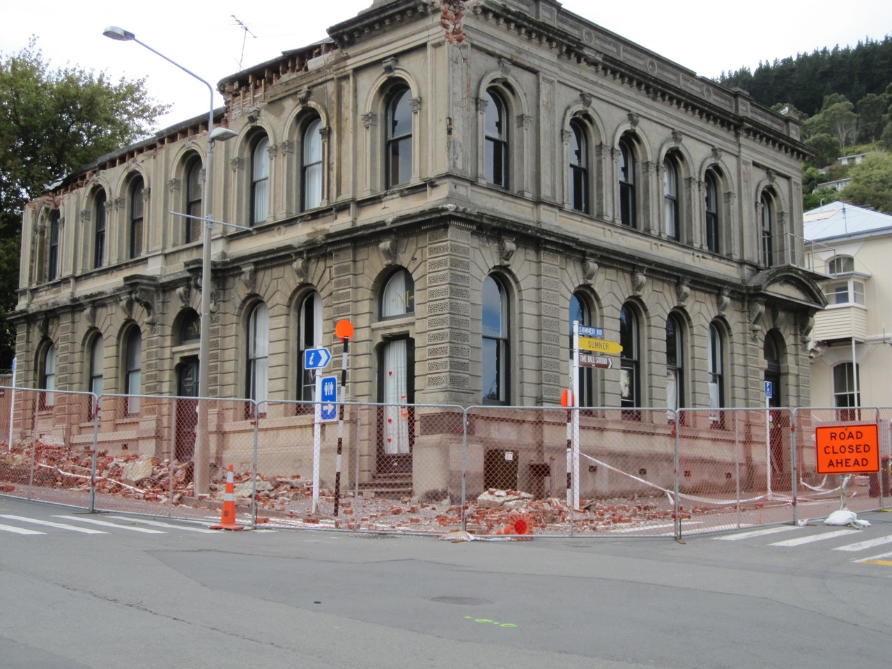 The Lyttelton Public Library in April 2011 with damage from the 2011 Christchurch earthquake.